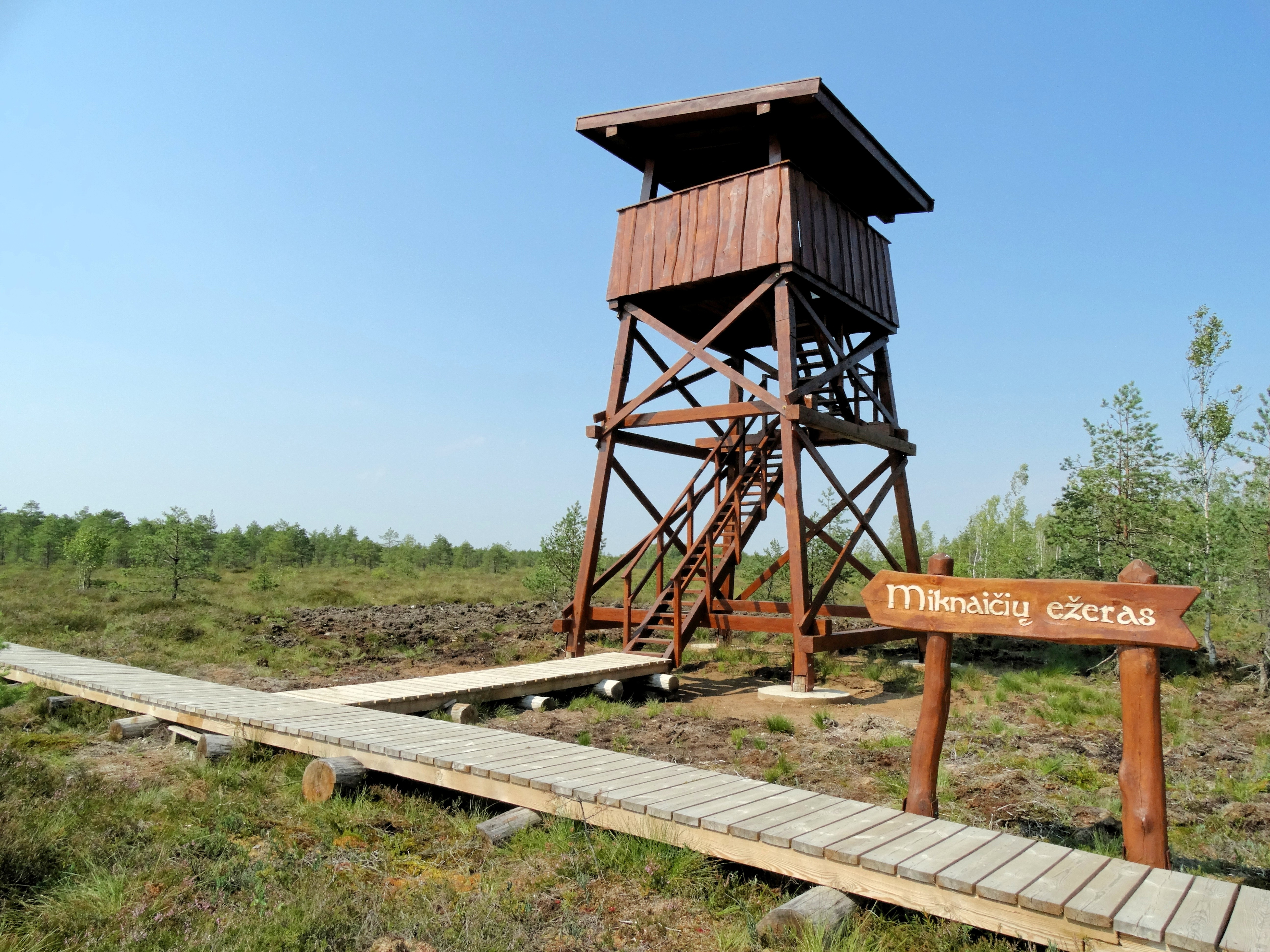 Swamp of Mūšos tyrelis, educational walkway, observation tower, Joniškis district, Lithuania